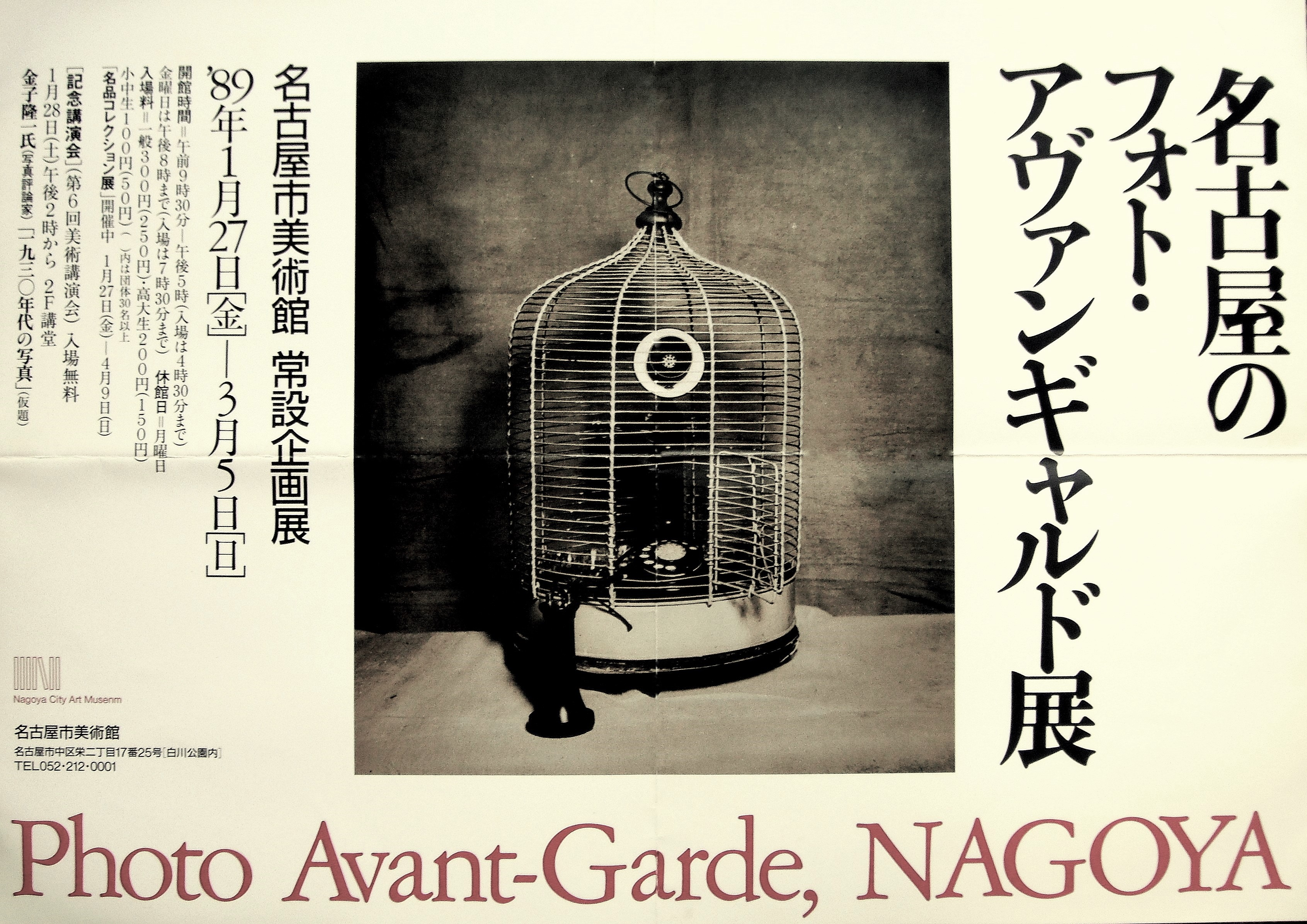 "Buddhist Temple's Birdcage" 1940. Photo Avant-Garde, NAGOYA exhibition, 1989, Nagoya City Art Museum.